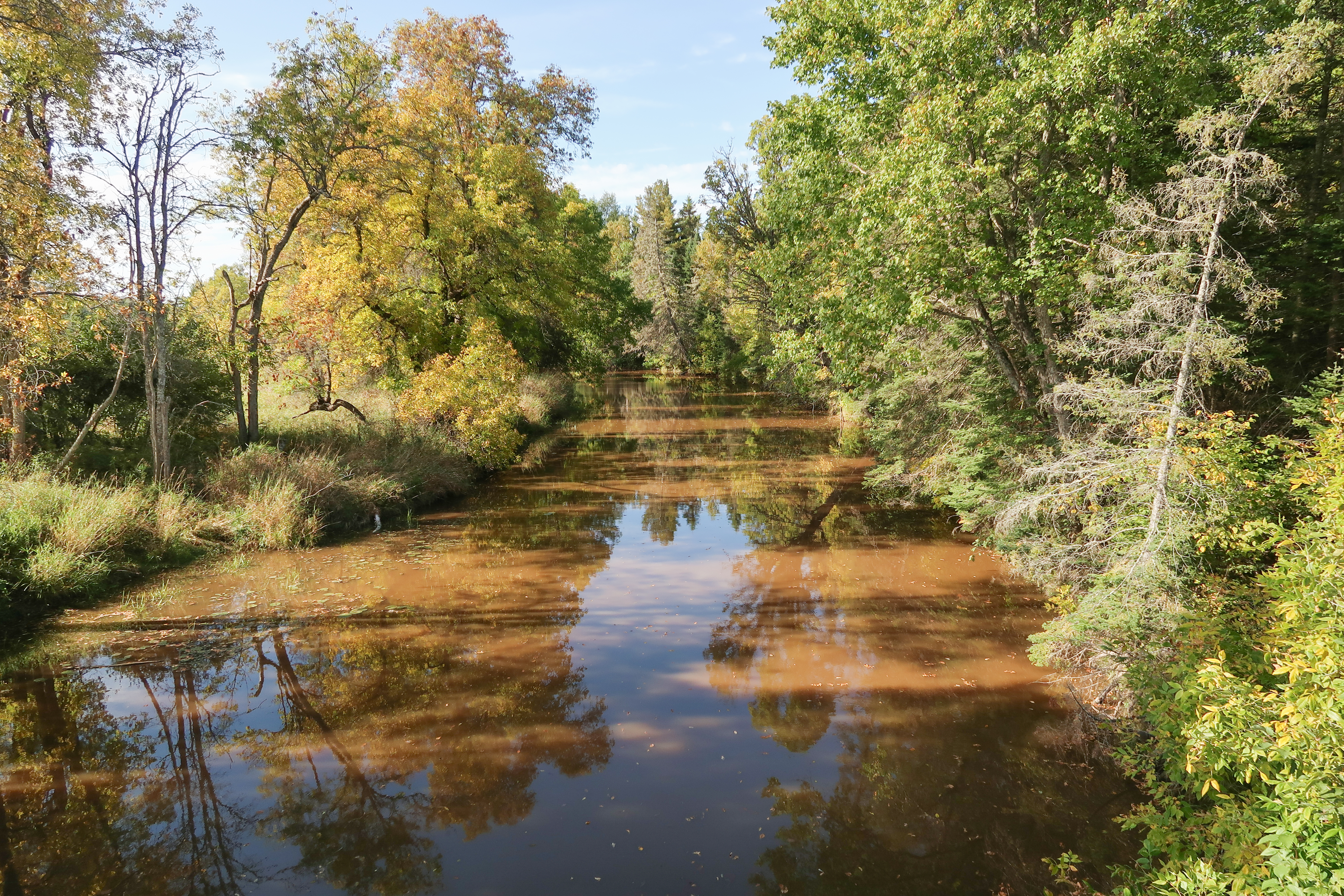 The Charlotte River as viewed from a bridge on East 12 Mile Road in Bruce Township, Chippewa County, Michigan.